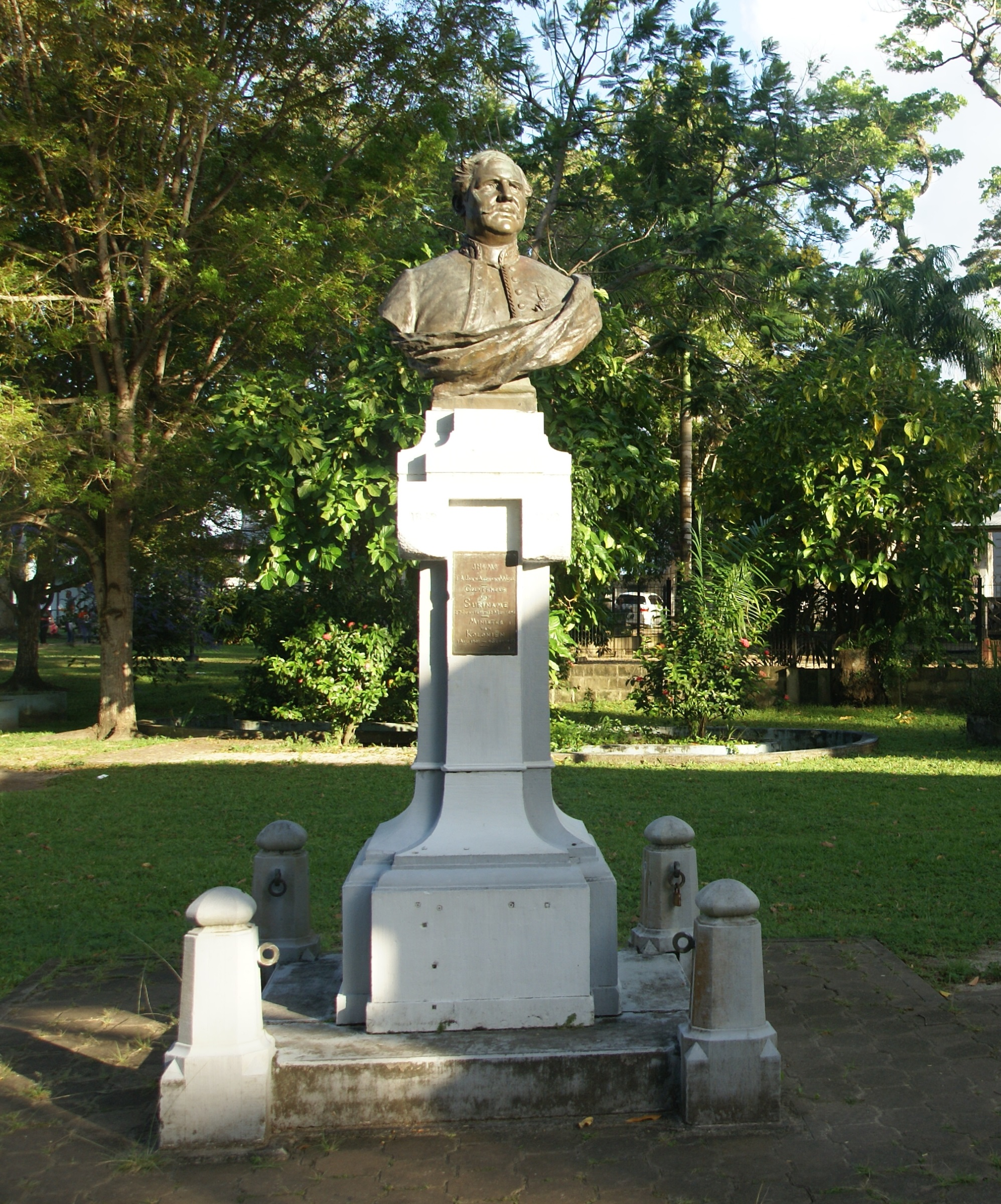 Bust of Titus van Asch van Wijck. By Van Wijk, 1904. Zeelandiaweg, Paramaribo, Surinam.